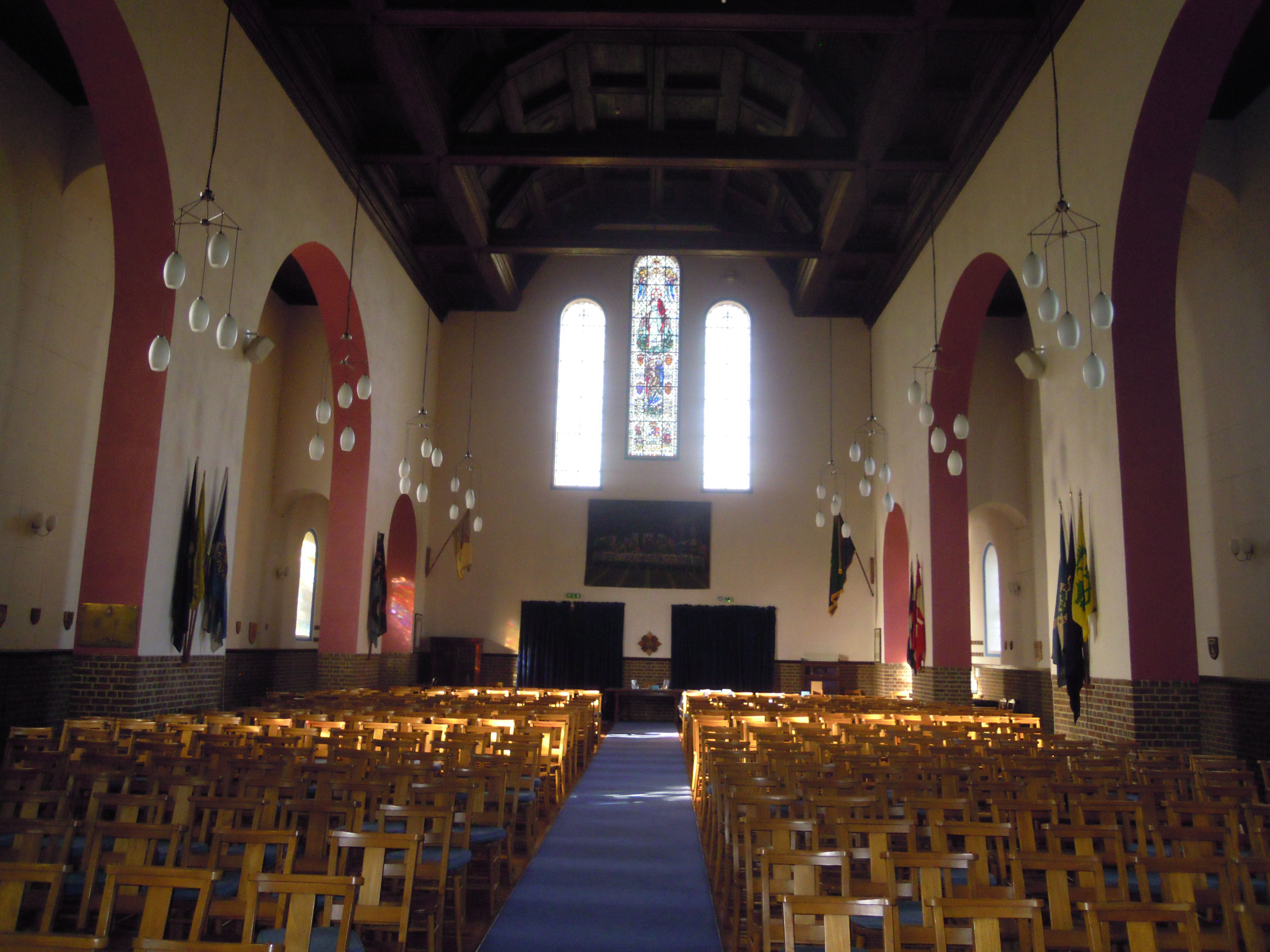 View West down the nave of St Andrews Garrison Church in Aldershot in Hampshire